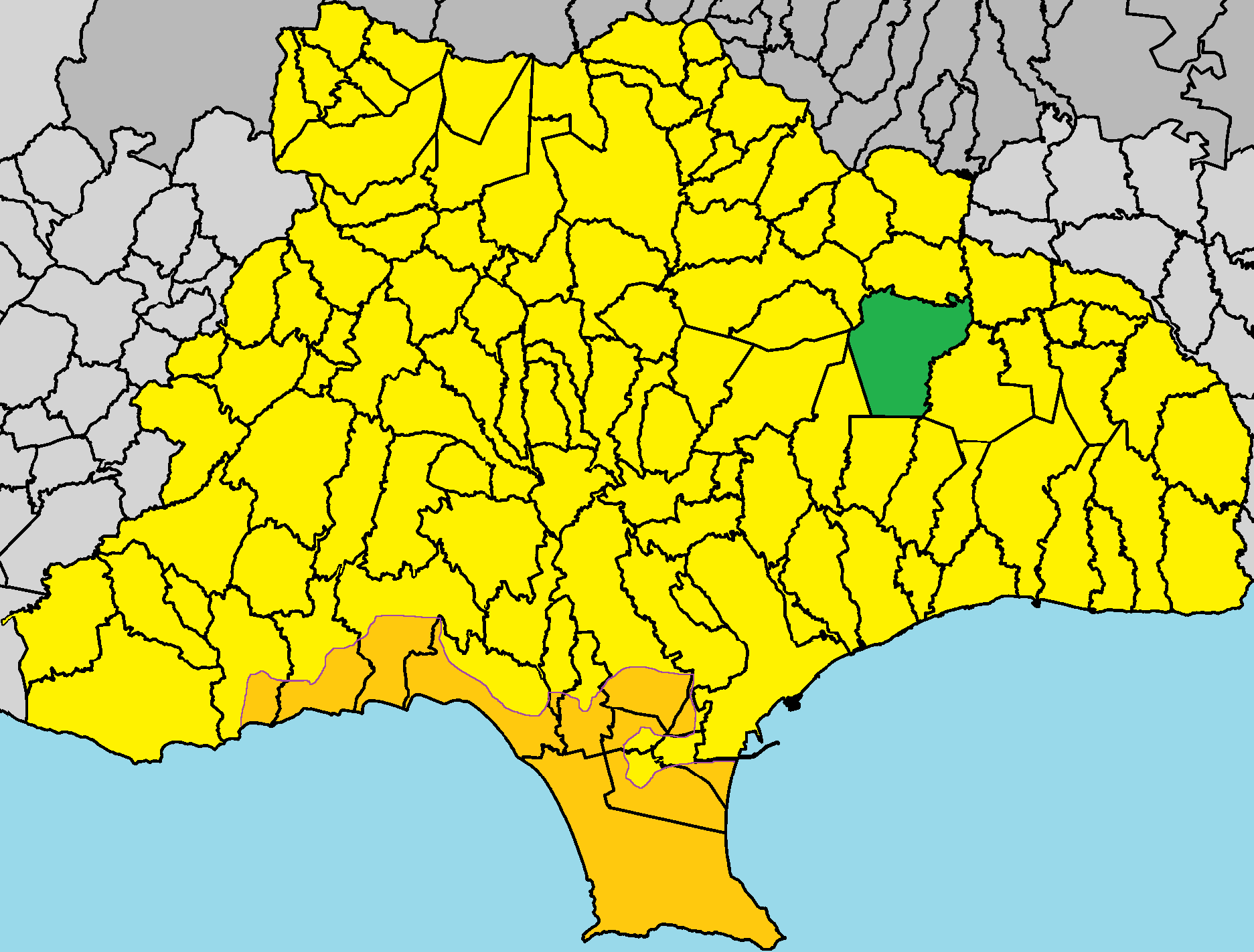 Dierona in Limassol District.